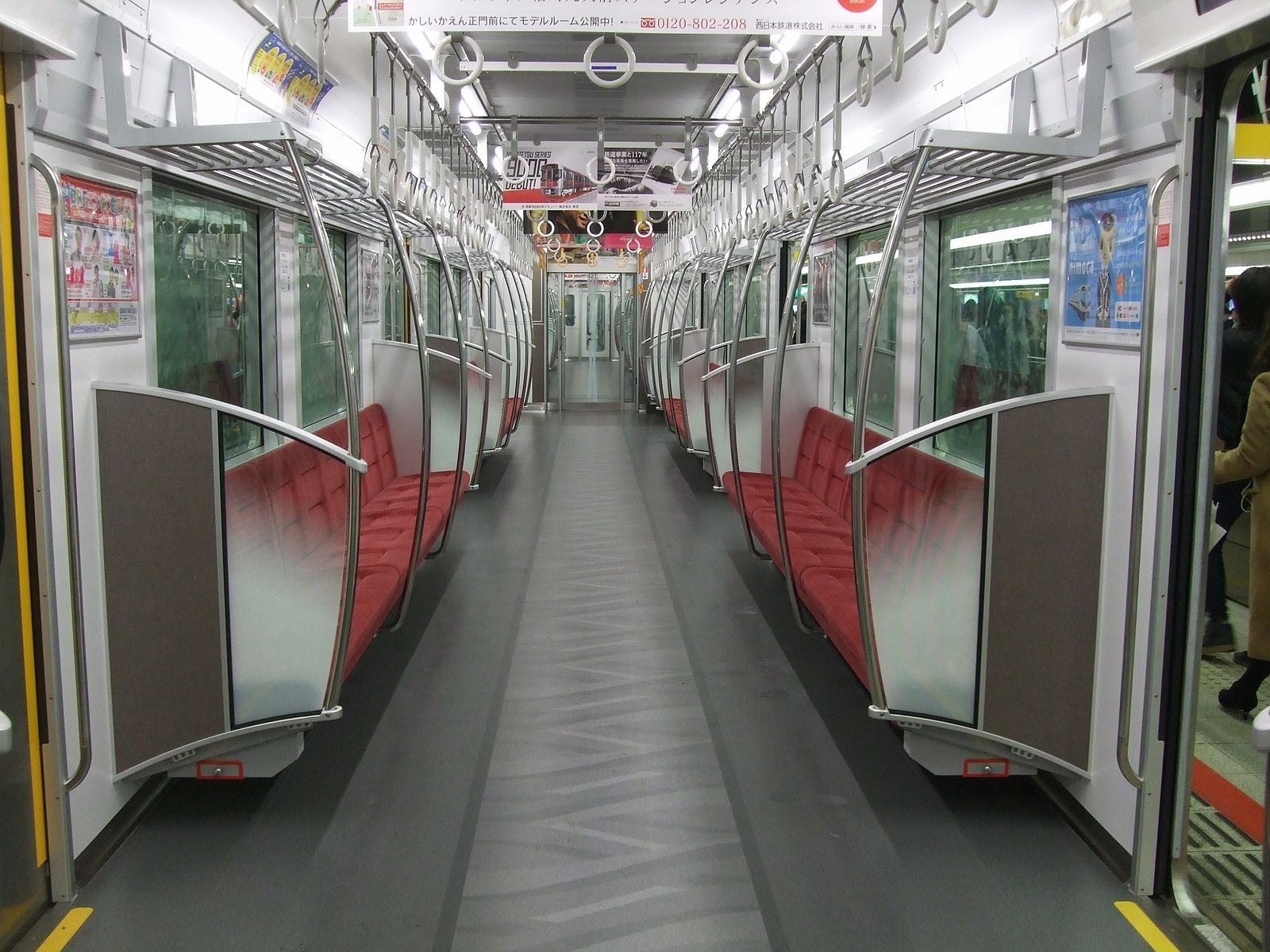 The interior of Nishitetsu 9000 series EMU car 9301